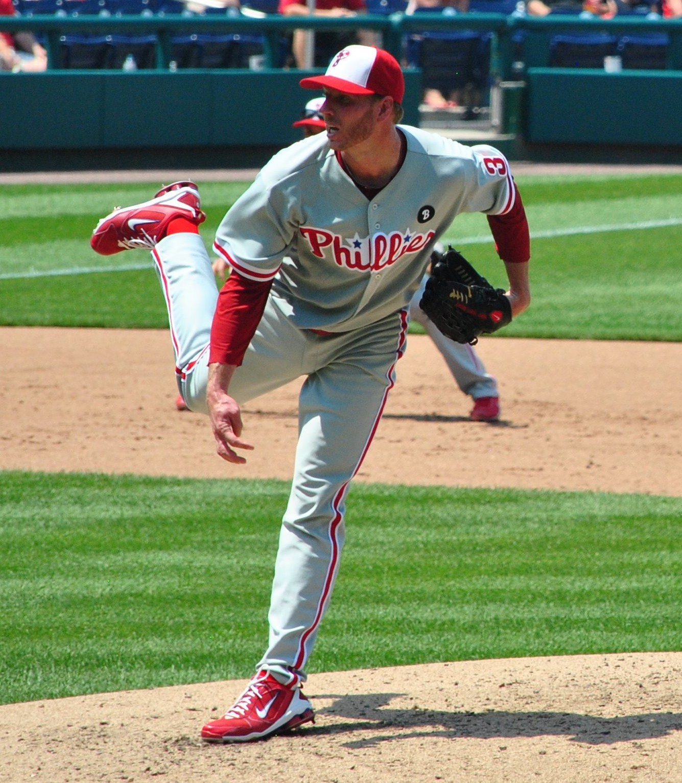 Roy Halladay of the Philadelphia Phillies pitching at Nationals Park on May 30, 2011.